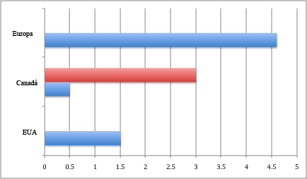 Figure 3. The incidence of obstetrical brachial plexus palsy (OBPP) where USA is about 1.51 cases per 1000 live births, a Canadian study, where the incidence was between 0.5 and 3 injuries per 1000 live Birth, and European countries, such as a Dutch study reported an incidence of 4.6 per 1000 births (Smania, 484).